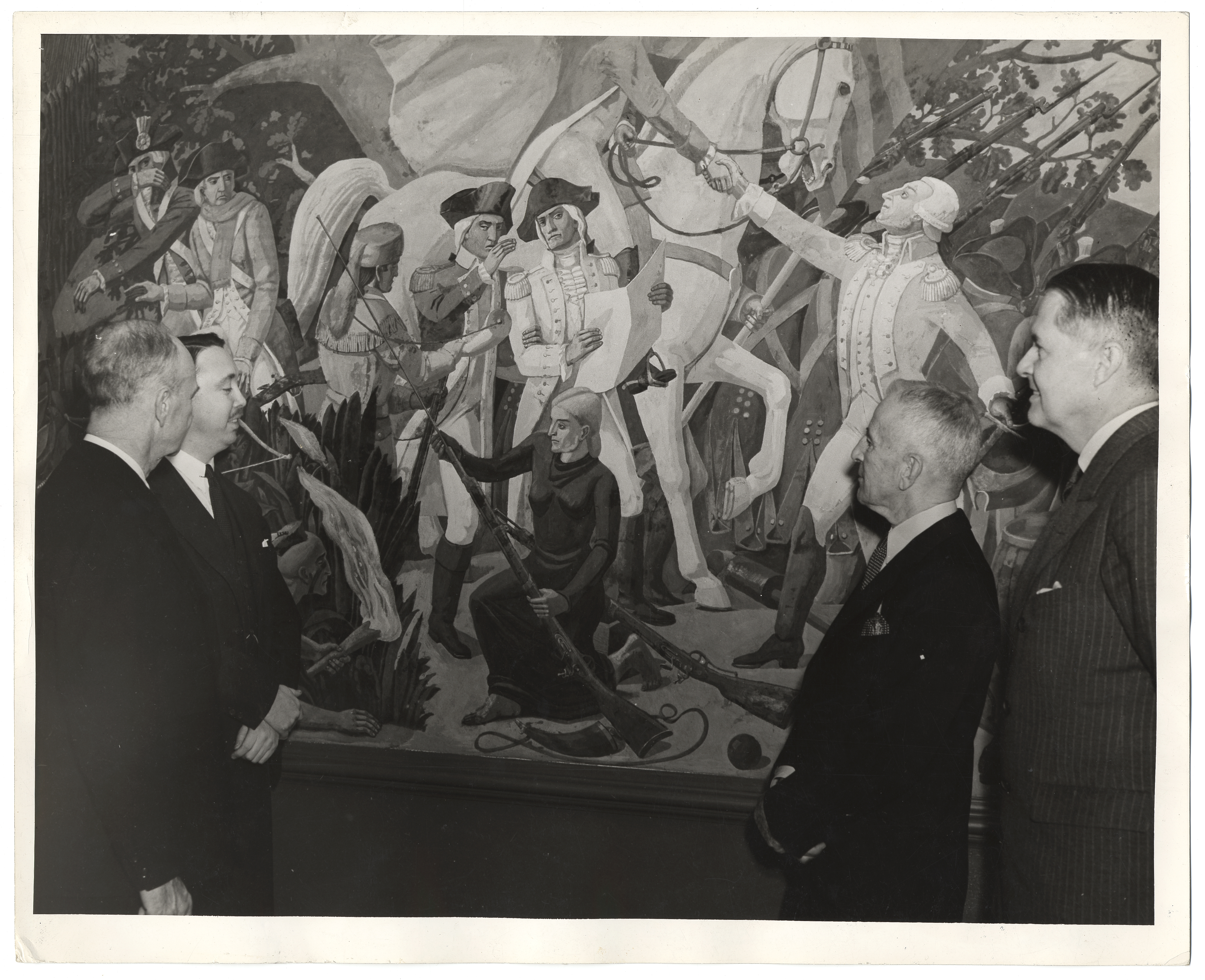 Johnson with others at the unveiling of his mural, photographed for the Works Progress Administration. Identification on verso (handwritten and stamped): Federal Art Project W.P.A.; Photographic Division; 110 King Street; New York City Unveiling of Loftin Johnson mural; Negative No.: 3415-5; Date: 10/21/38; Photographer: Herman. Identification on verso (handwritten): Johnson 2nd from left.